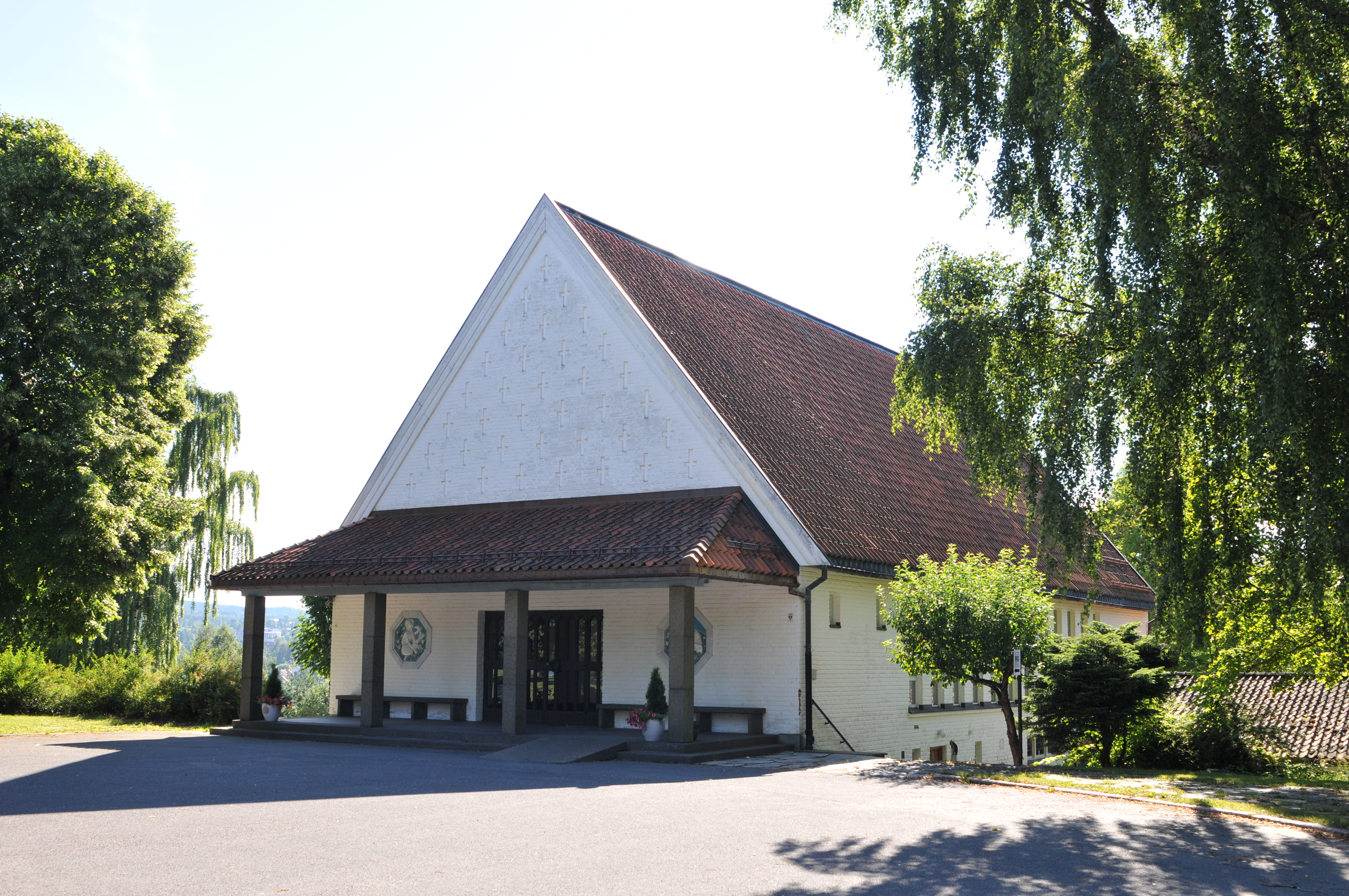 Asker krematorium, Asker, Norway - Architects Gudolf Blakstad and Herman Munthe-KaasNorsk bokmål: Asker krematorium, Asker, Norge - Arkitekter Gudolf Blakstad og Herman Munthe-Kaas